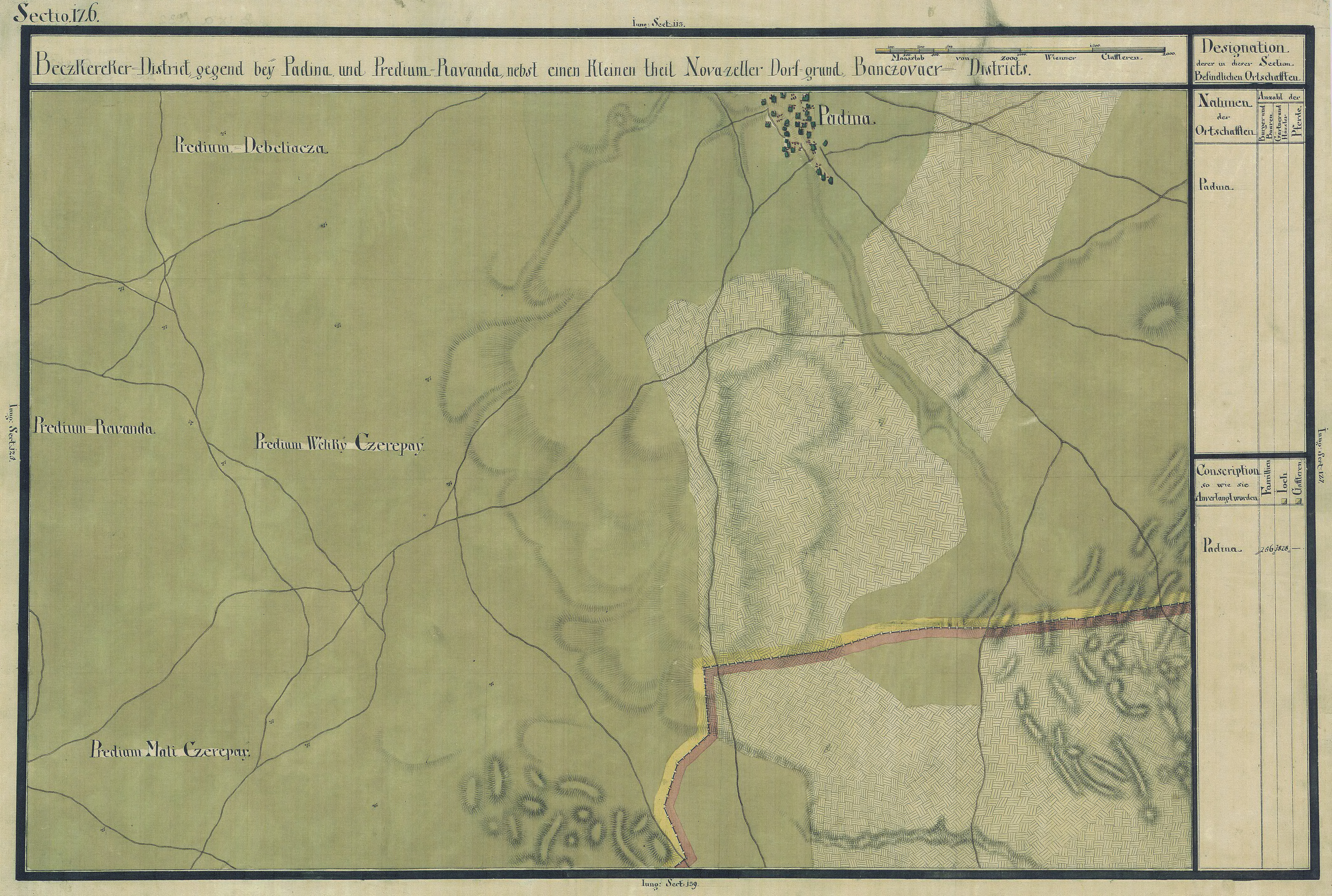 The Banat region in the cadastral maps: Josephinische Landesaufnahme, 1769-72. Josephinische Landaufnahme pg126